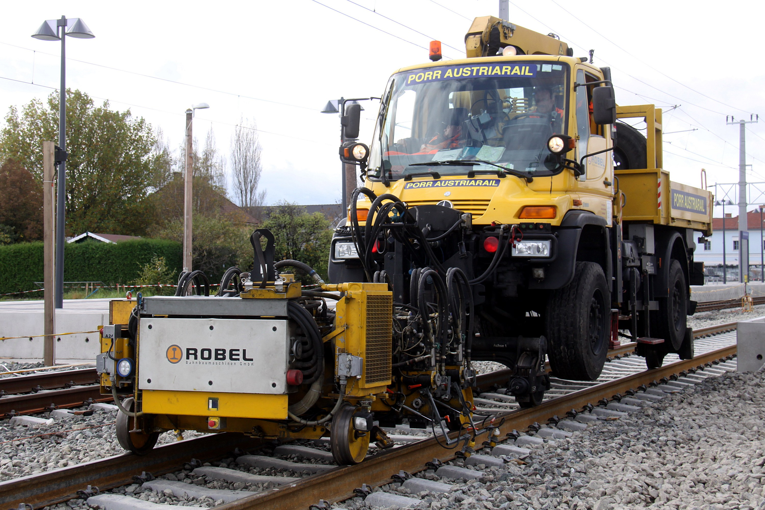 Total remodeling, renovation and modernization of Neunkirchen railwaystation.